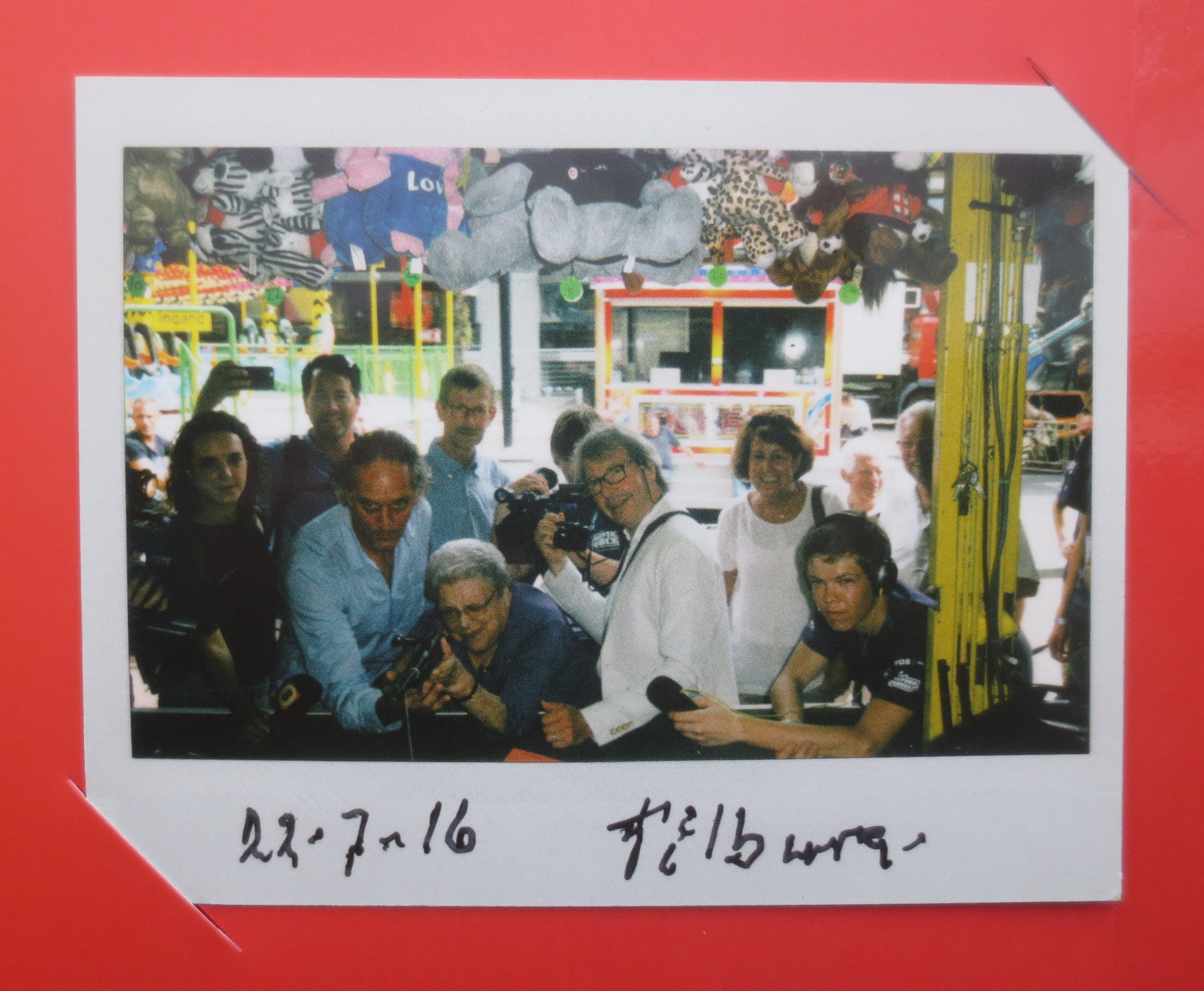 Fotoshooting